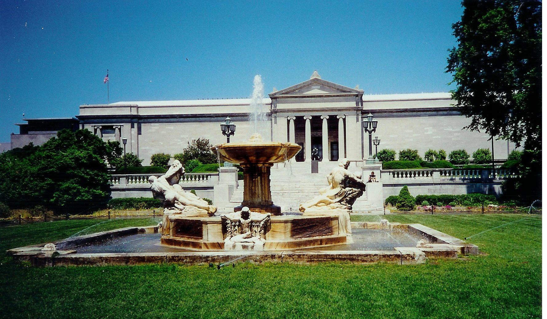 Cleveland Museum of Art, view from South